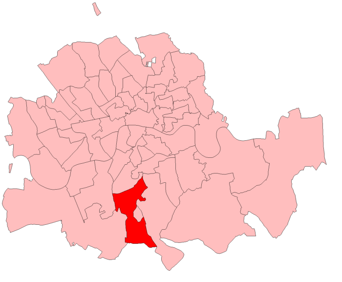 A map of Norwood constituency within the Metropolitan Board of Works area, as it existed from 1885 to 1918.